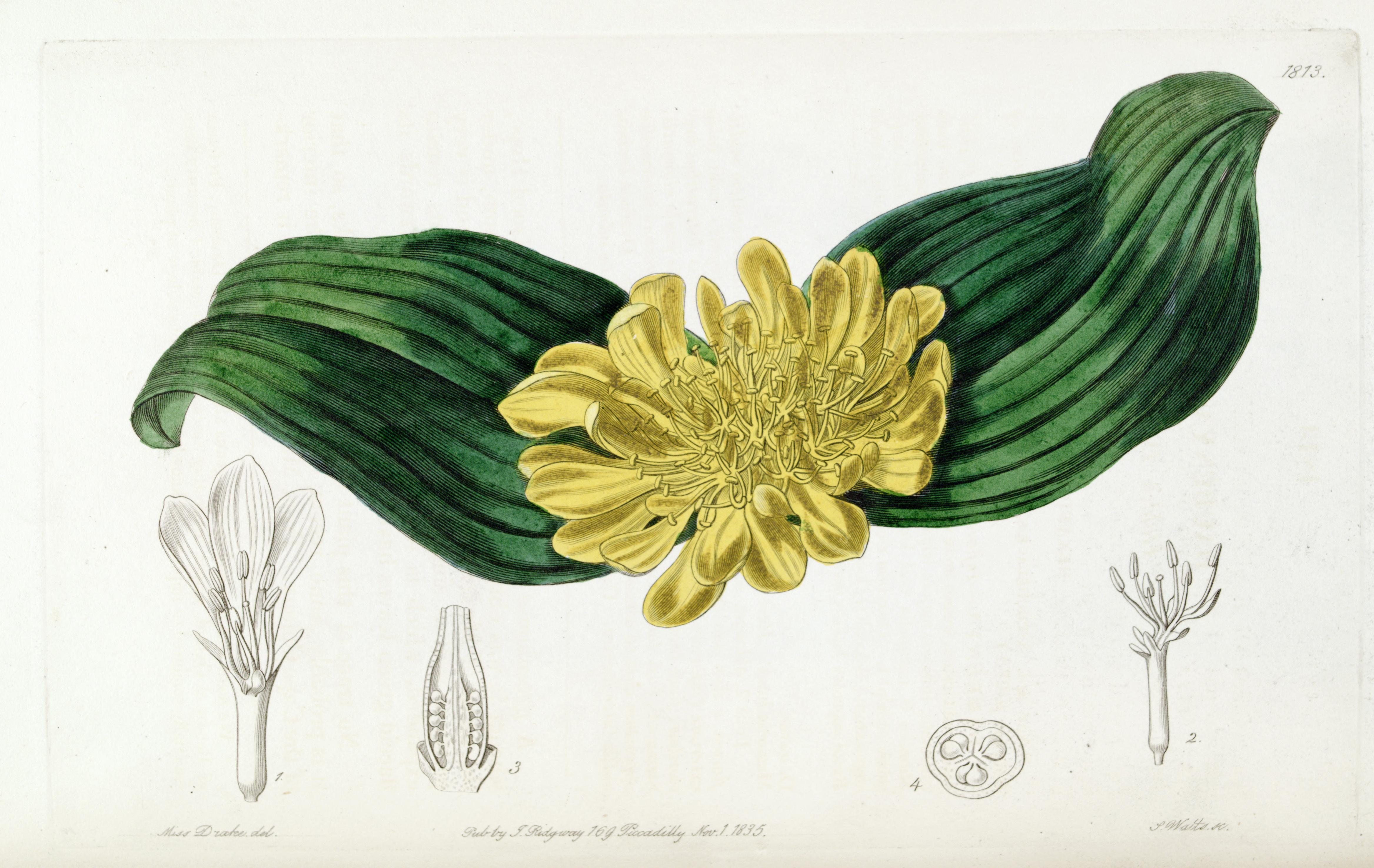 Daubenya aurea botanical illustration, from the original publication. Plate 8013, published in 1835, from Edwards's Botanical Register volume 21, 1836.